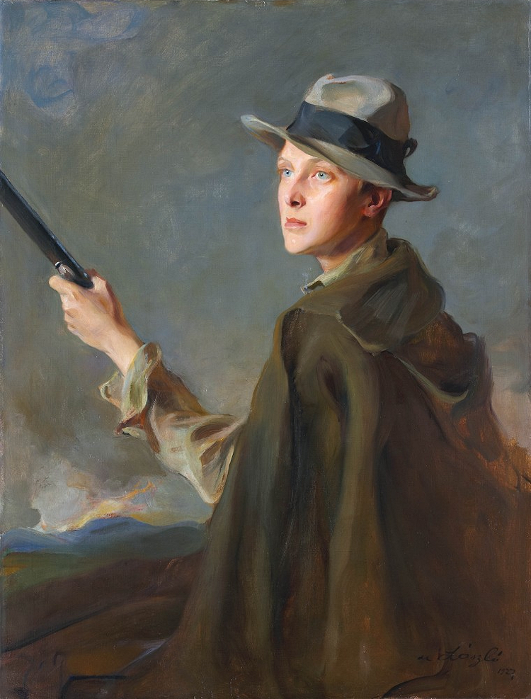 Portrait of Infante Alfonso, Prince of Asturias, Count of Covadonga and heir to the throne of the Kingdom of Spain as the eldest son of Alfonso XIII. He is portrayed in hunting outfit, holding a side-by-side "Sarasqueta" gun.